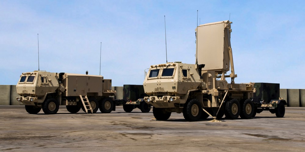 The AN/TPQ-53 Counterfire Target Acquisition Radar, also known as Q-53, is a C-130 transportable, truck-mounted Counter Target Acquisition radar system configured to provide 360-degree threat detection capability manufactured by Lockheed Martin in the United States. It is able to locate the firing positions of both rocket and mortar launchers. The Q-53 development was informed by earlier versions of a similar technology called the AN/TPQ-36 and AN/TPQ/37 radar systems. The AN/TPQ-36 required three trailers, three vehicles and a six-man crew; the Q-53 requires a four or five-man crew and includes a 60-kilowatt transportable generator and one support shelter vehicle. Q-53 uses an encrypted wireless network able to reach up to 1,000 meters away